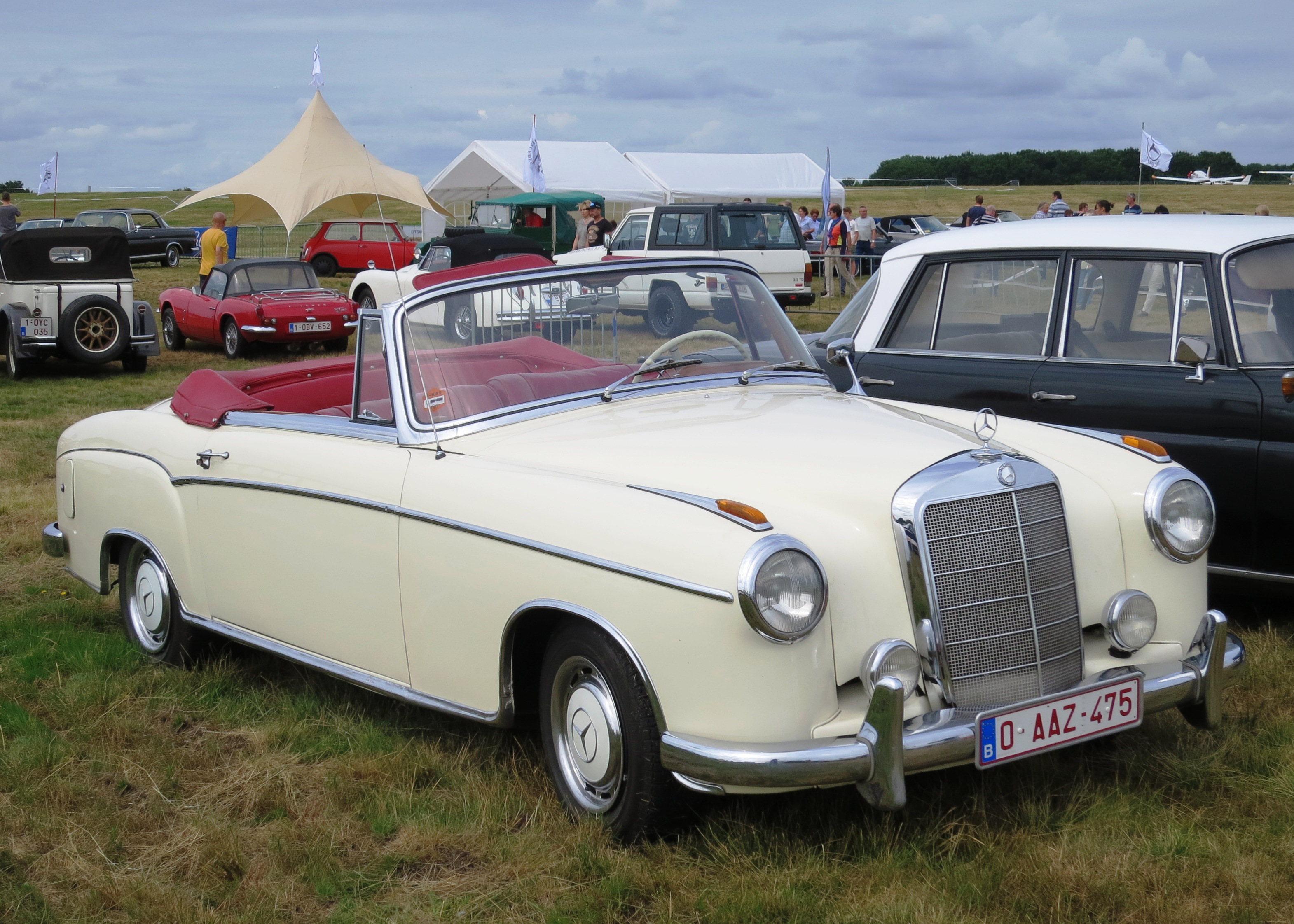 Mercedes-Benz 220S (W180) cabriolet